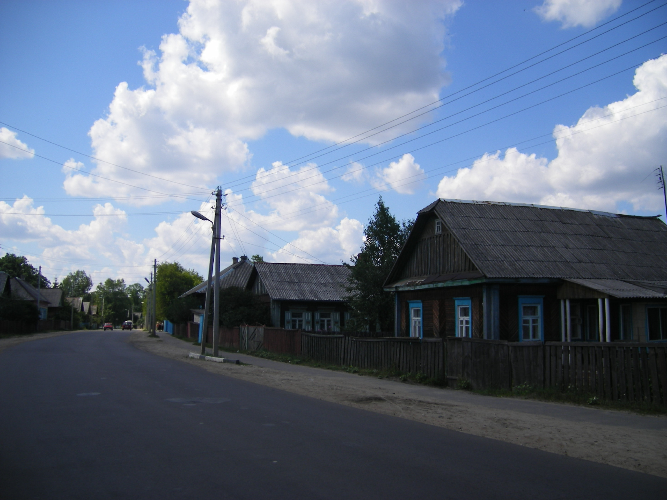 Kalinkavichy, ul. Mira